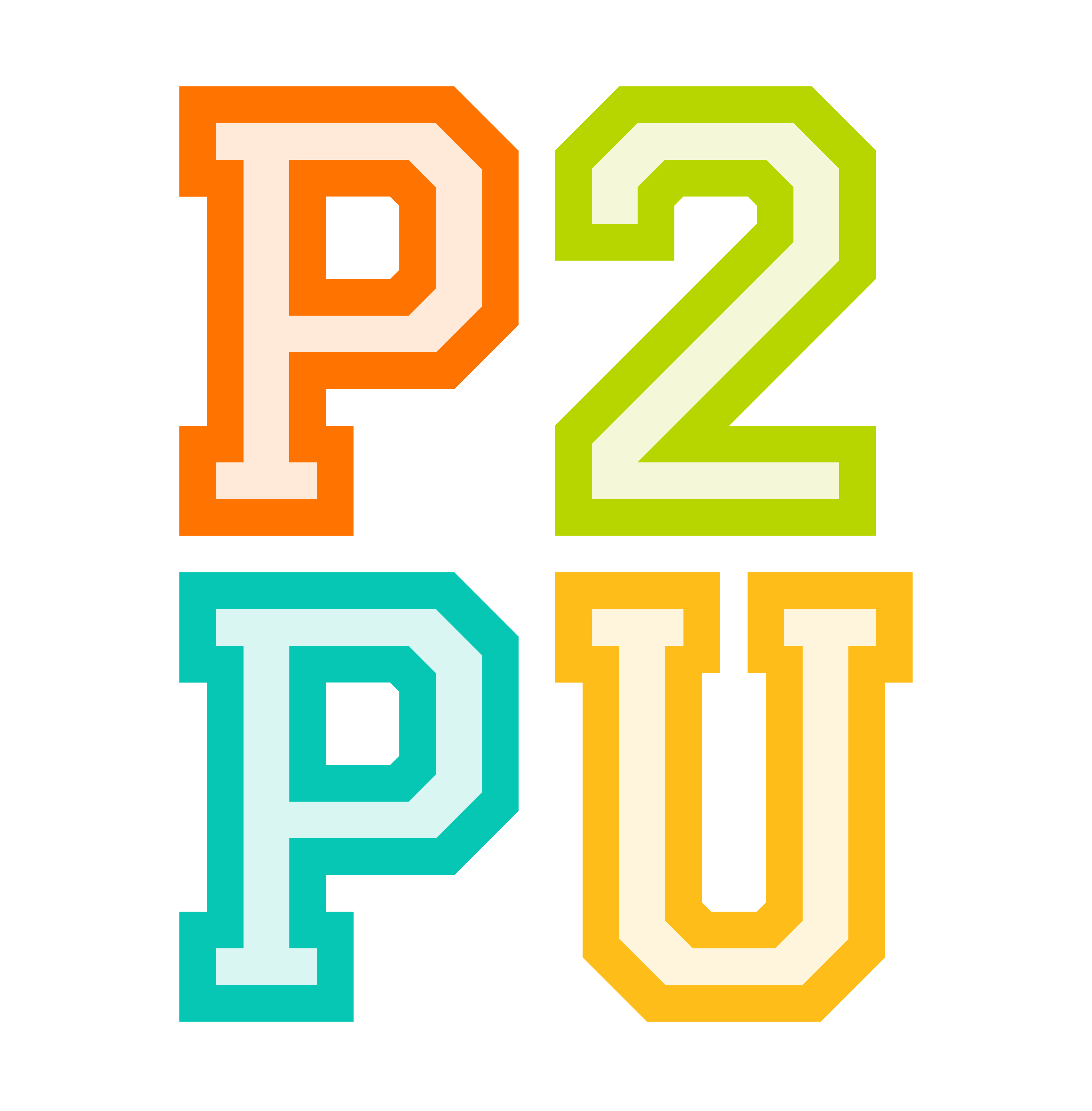 PEER 2 PEER UNIVERSITY Logo 2